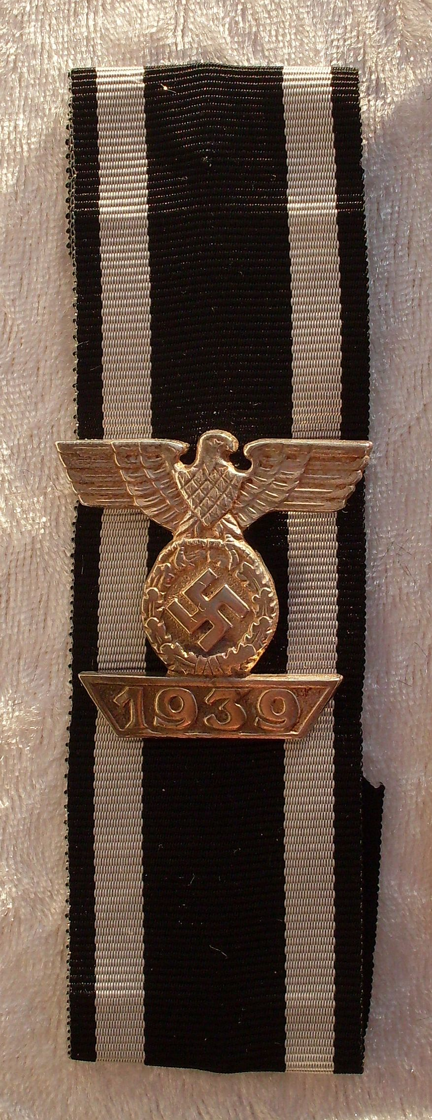 Iron Cross 2nd Class (1914) with reiteration 1939 (Third Reich).